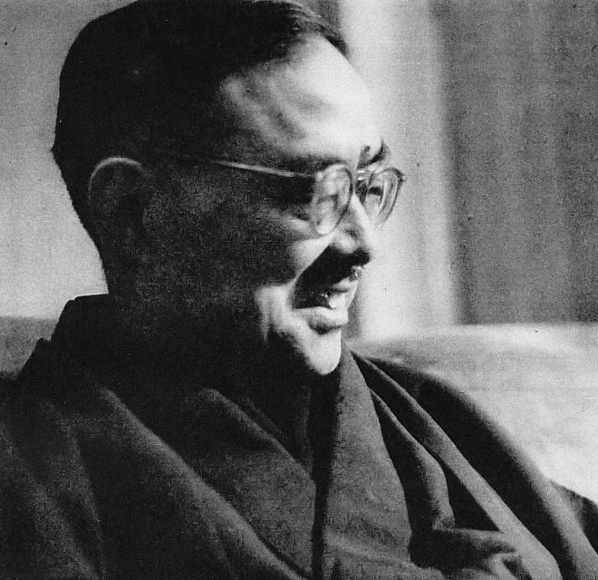 Kiyoshi Goko